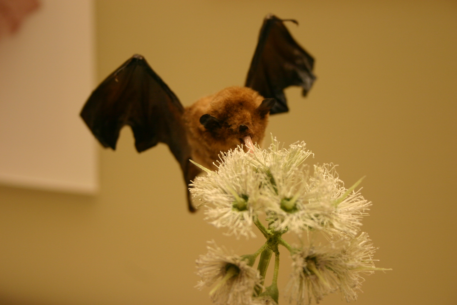 Pallas's long-tongued bat